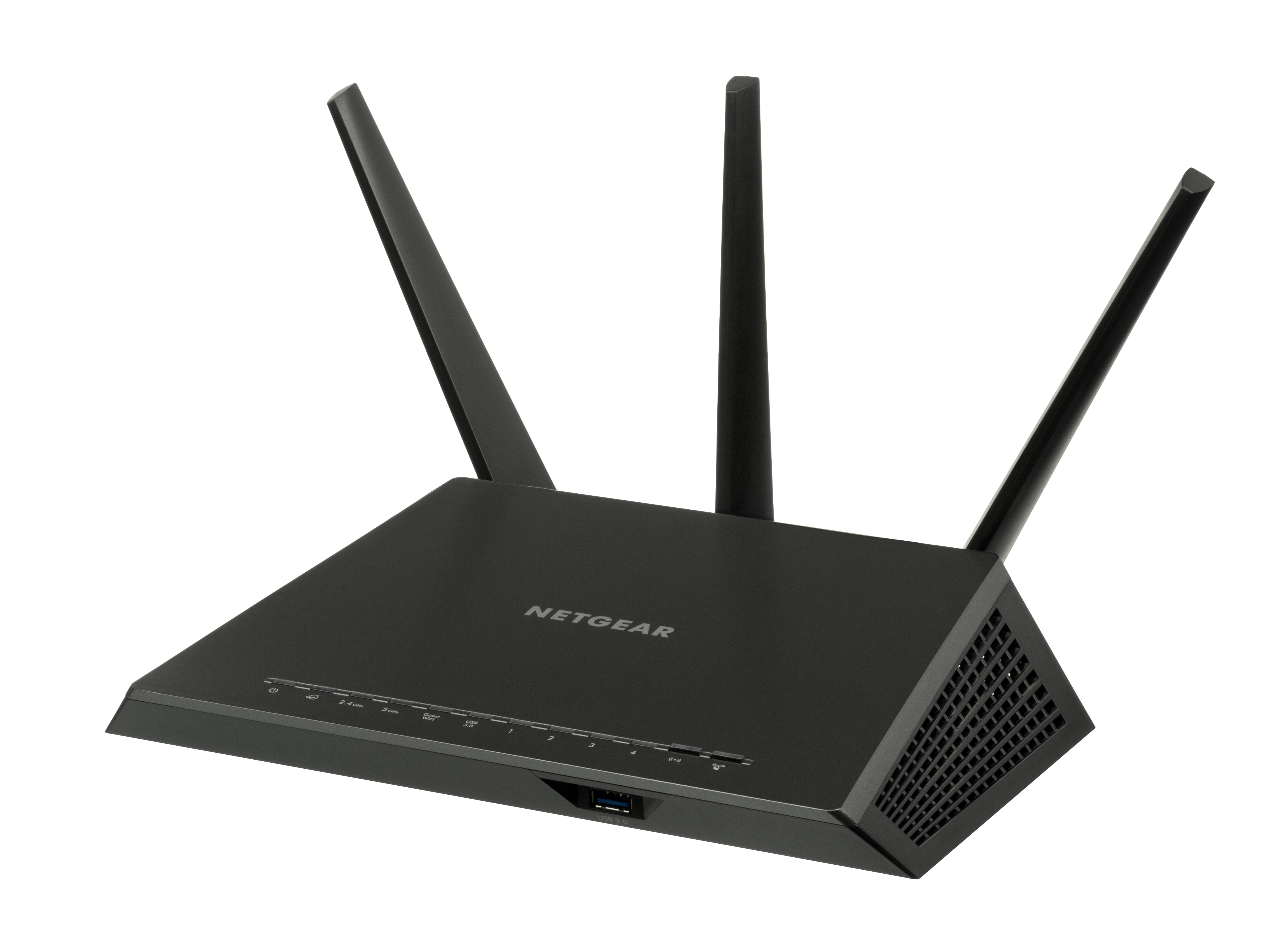 A Netgear Nighthawk WiFi router, model AC1900. This is a wireless router first released in 2013 with a list price of $249. It is a dual band router with a 1GHz dual core processor.